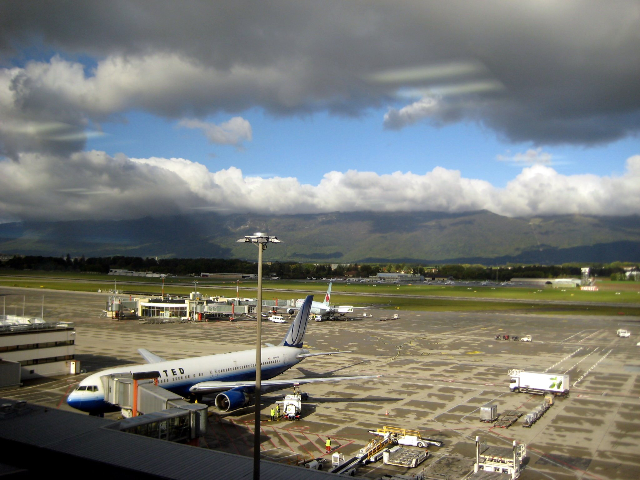 Geneva, Switzerland Airport